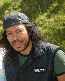 Higuita, portero